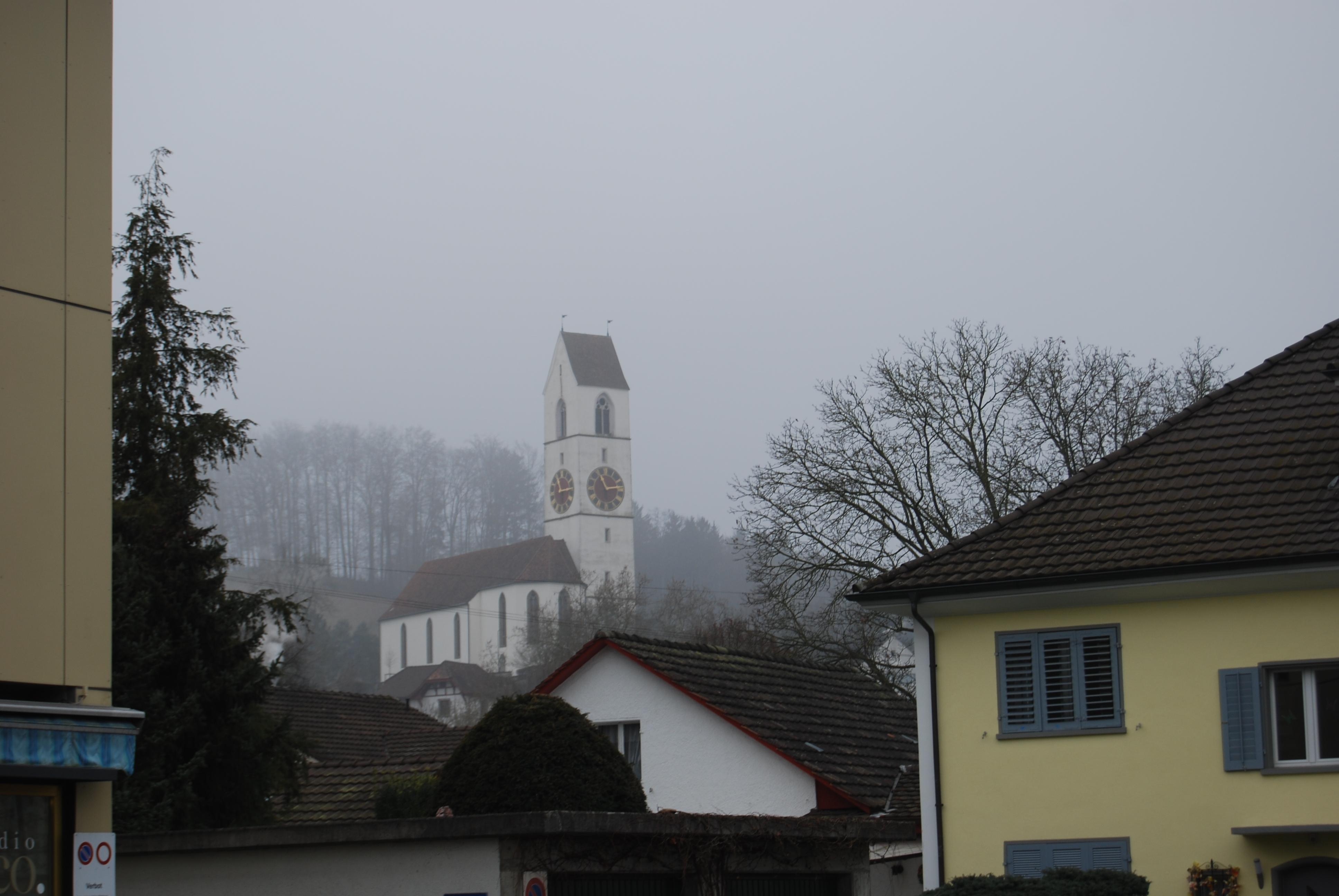 Church of Suhr, canton of Aargau, Switzerland